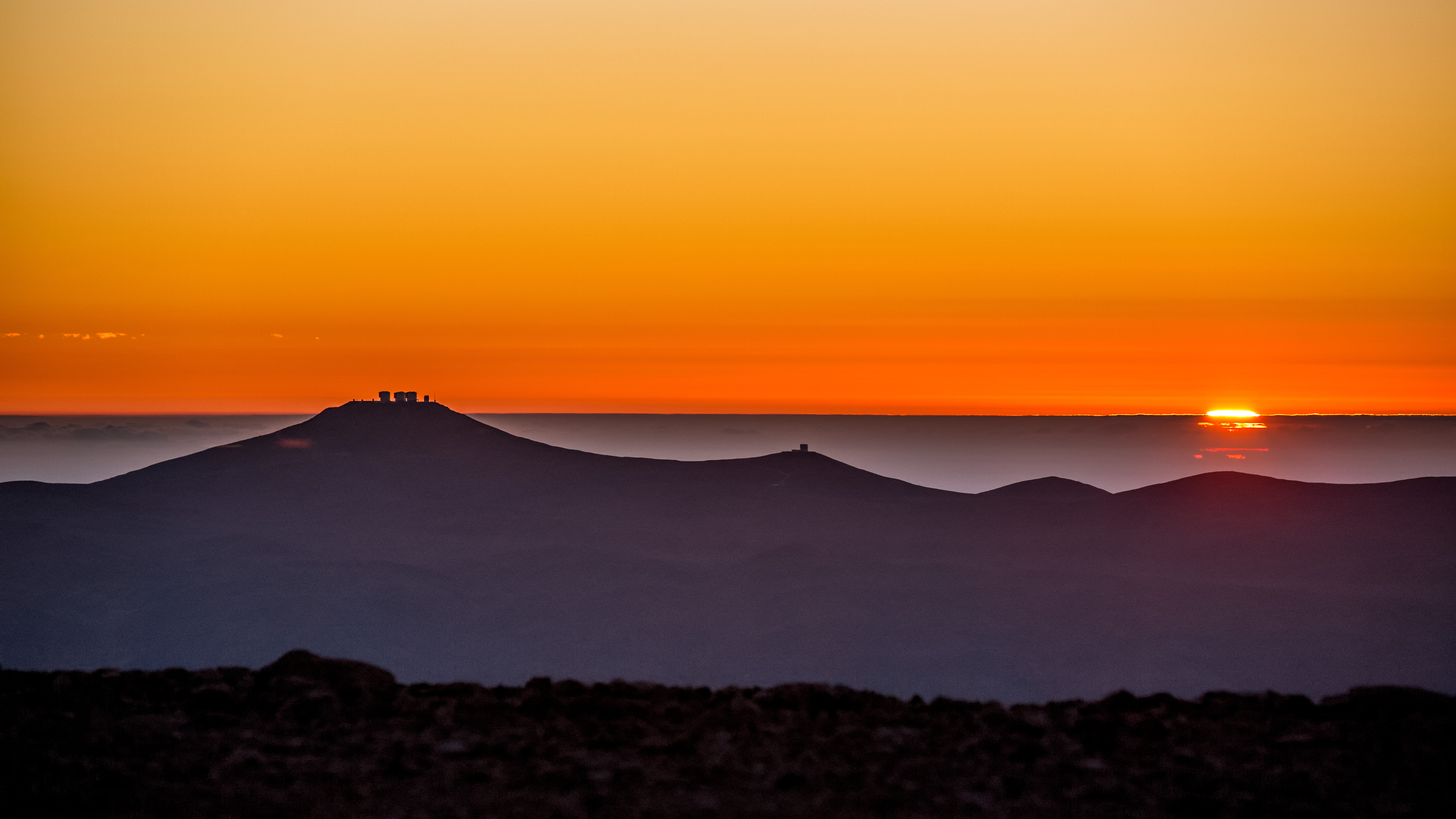 Many ESO Pictures of the Week feature distant cosmic objects — mysterious jumbles of stars, gas, dust and more sitting millions of light-years away. This panorama, however, showcases a somewhat more tangible, but no less glorious, beauty — that of our home planet, Earth. Captured as the Sun slips below a false horizon of cloud, the sky glows in such a vivid shade of orange that the desert landscape takes on an almost alien appearance. In fact, the Chilean Atacama desert has been used previously by film crews seeking a Mars-like landscape! This other-worldly look is due to the exceptionally arid climate and the site’s complete isolation. The lack of humidity, rain and light pollution together produce both a dusty, rocky landscape and some of the most spectacularly clear skies found anywhere on Earth. This image was taken by ESO’s Simon Lowery in 2016 from Cerro Armazones, the future home of the European Extremely Large Telescope (E-ELT). The Paranal site, home to the Very Large Telescope (VLT), is just visible beyond the hilltops running across the centre of the frame. The constituent telescopes of the VLT can here be seen alongside the VLT Survey Telescope (VST) on the leftmost hill, whilst the Visible and Infrared Survey Telescope for Astronomy (VISTA) sits on an adjacent peak.